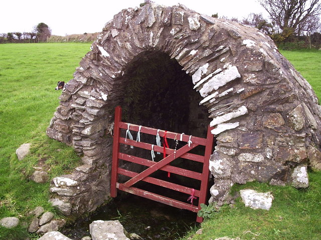 Holy well, Llanllawer, Pembs. This 'holy' well lies a stone's throw from the abandoned church of Llanllawer and is likely to have preceded the Christian era. Typically it would have been used, with votive offerings, to seek both health and harm. Nowadays it still receives a few coins and adornments from contemporary pagans.